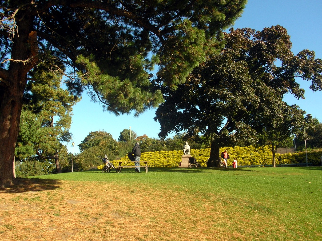 St. Hanshaugen park in Oslo (Norway)